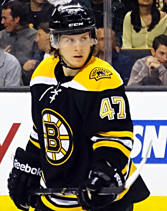 Boston defenseman Torey Krug during game four of the Bruins Eastern Conference Finals series against the Pittsburgh Penguins, June 7, 2013 at TD Garden in Boston, MA.